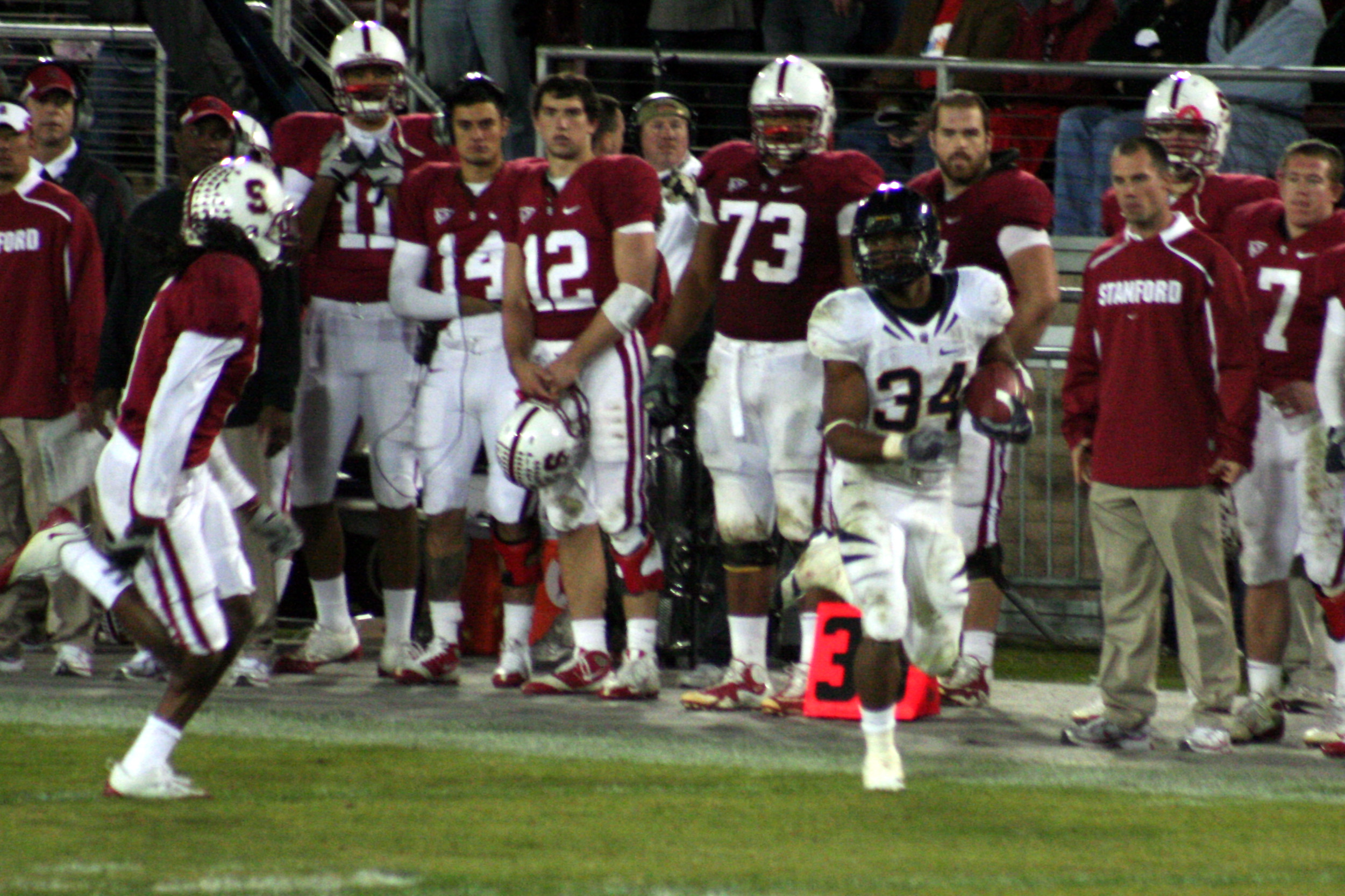 The Stanford Cardinal vs the California Golden Bears during the Big Game.